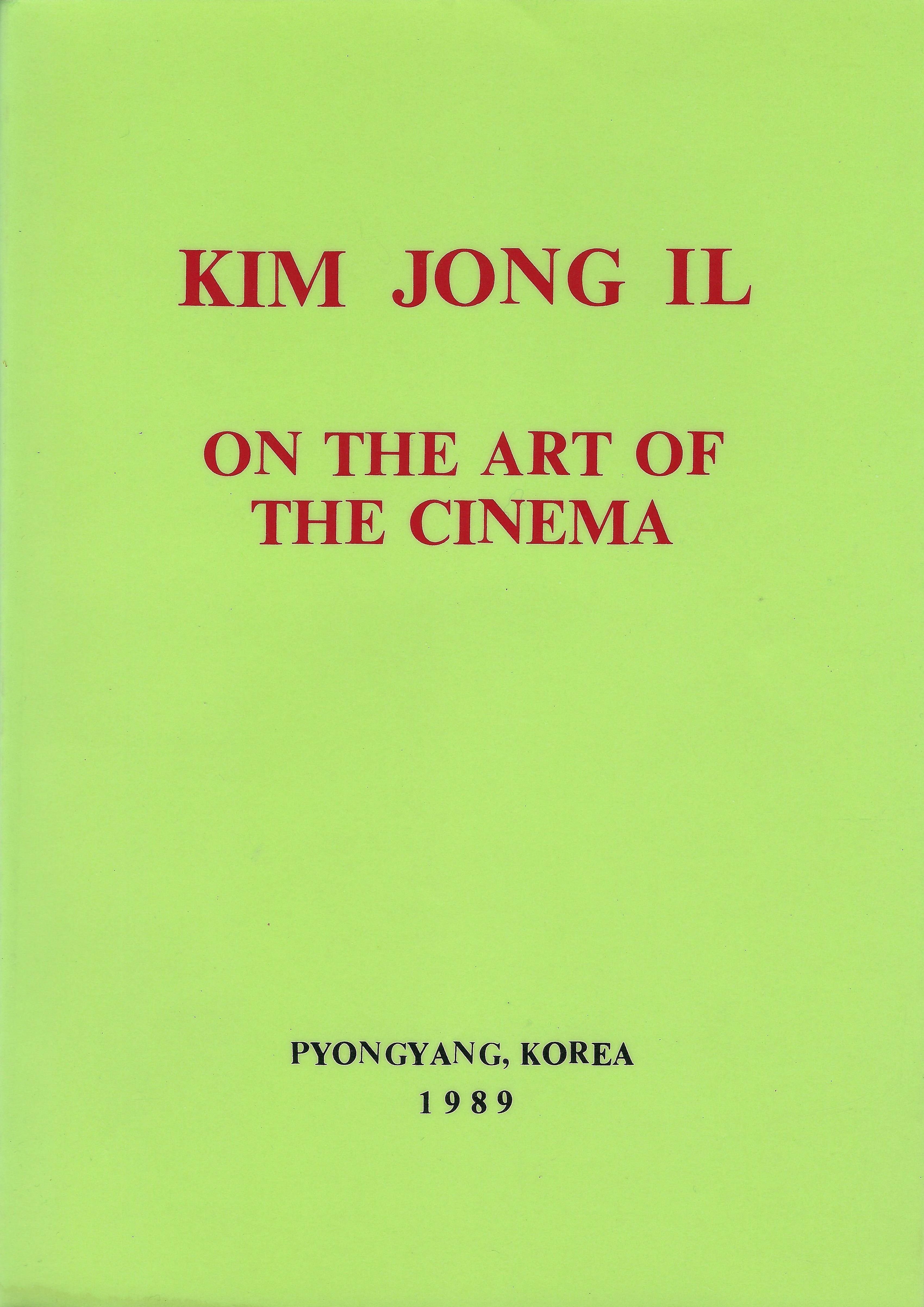 Cover page of the English edition of On the Art of the Cinema by Kim Jong-il.